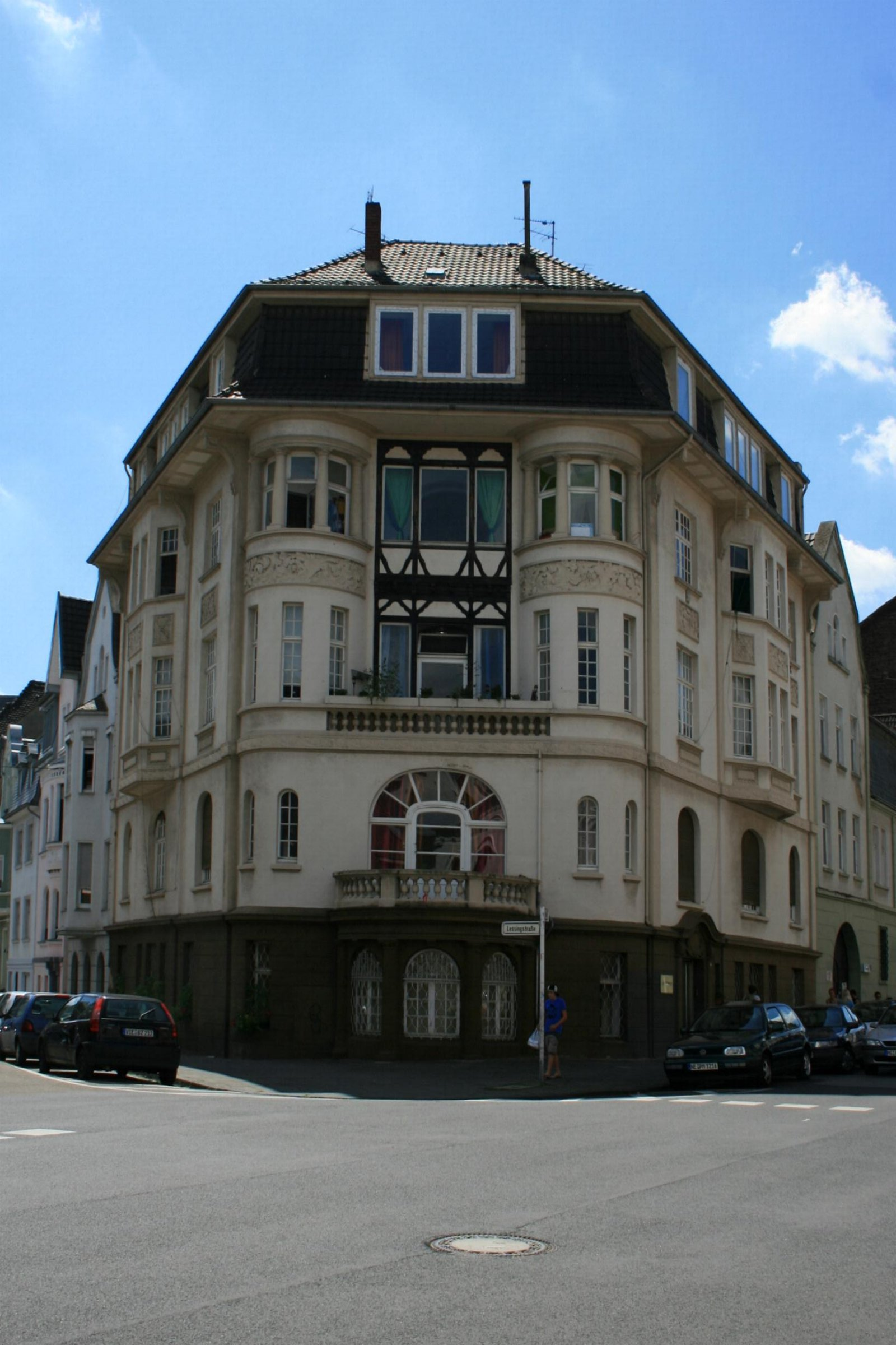 Cultural heritage monument No. G 043 in Mönchengladbach